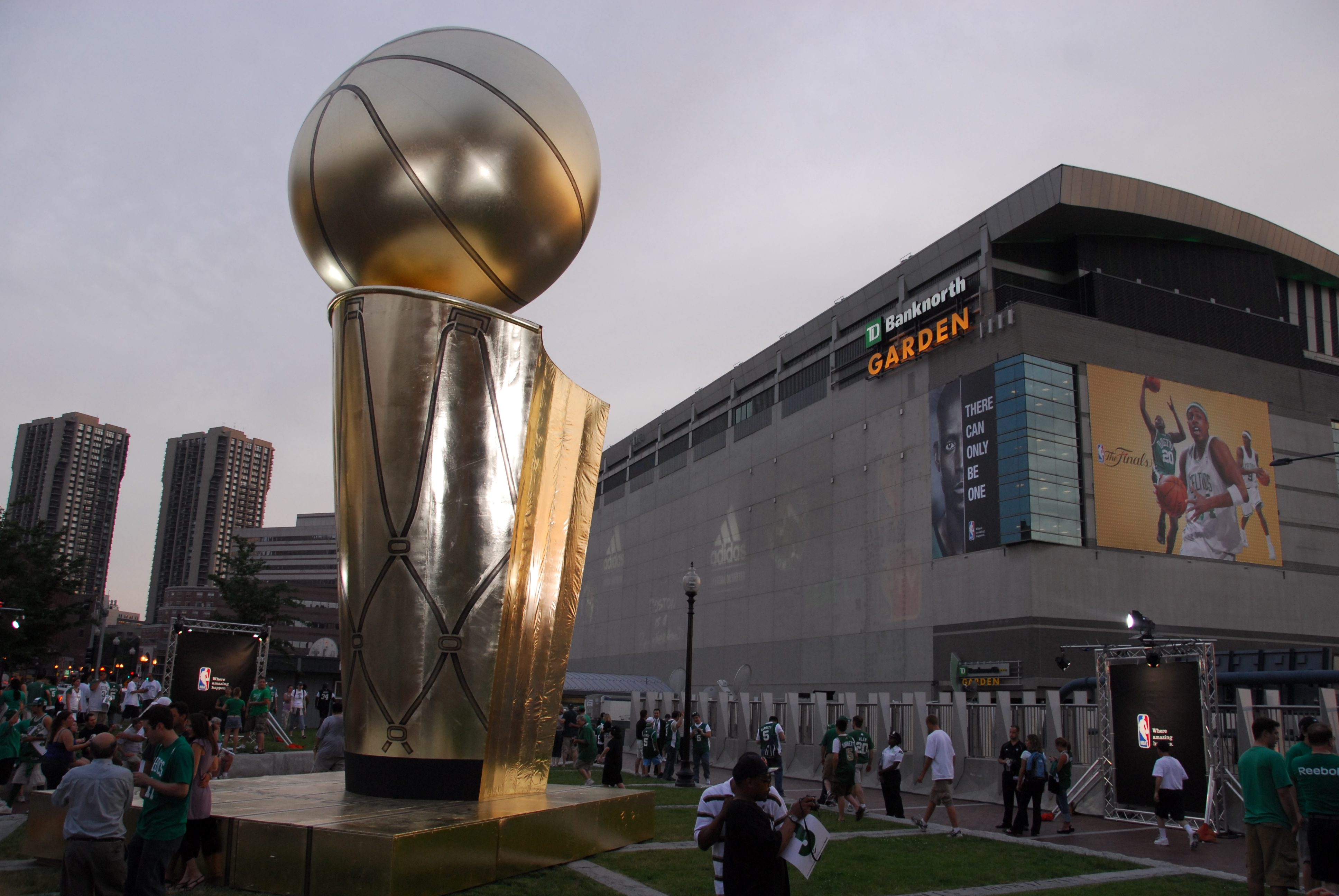 Trophy and Garden